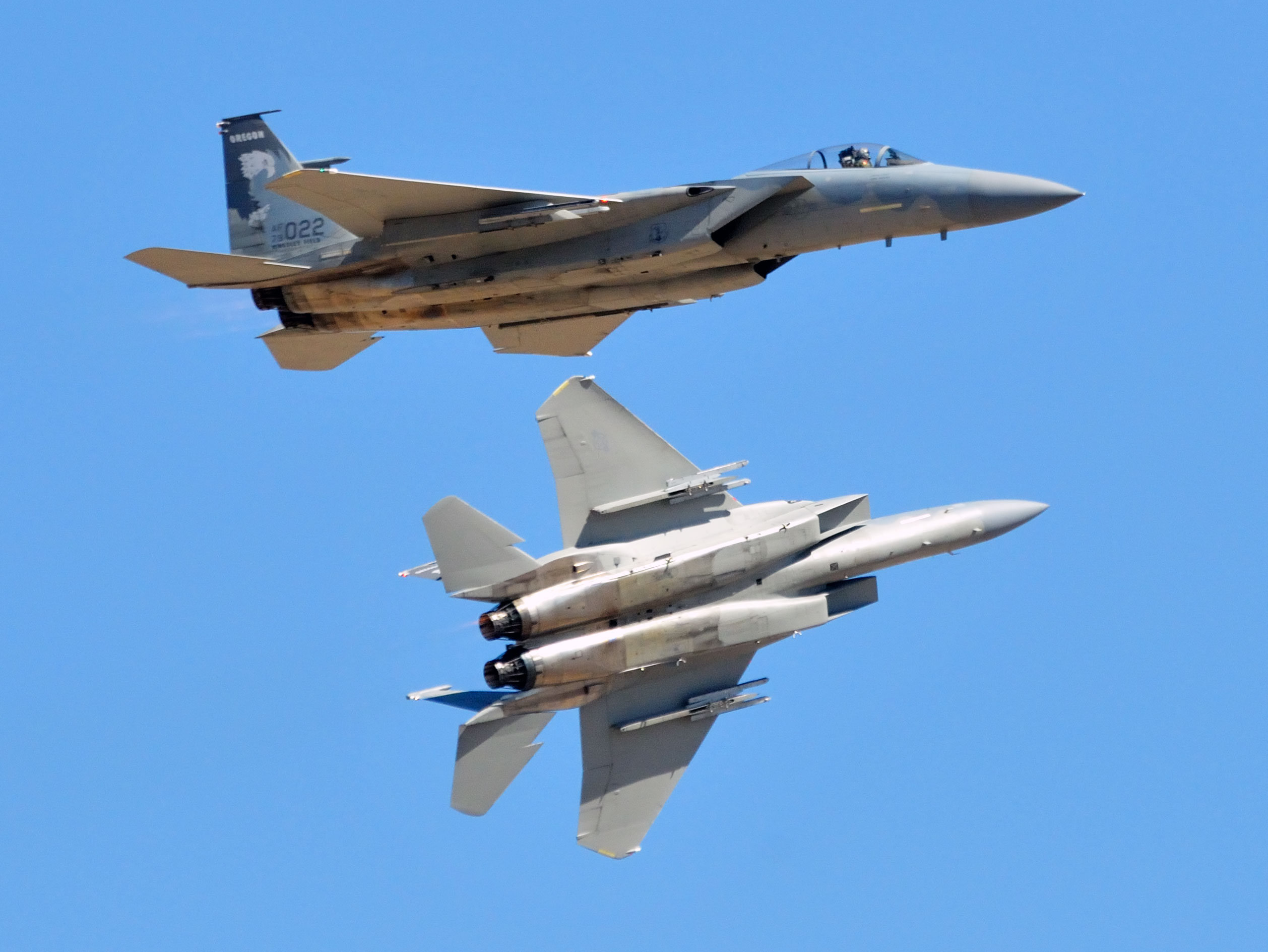 A pair of F-15 Eagle in flight during Reno Air Races 2009.